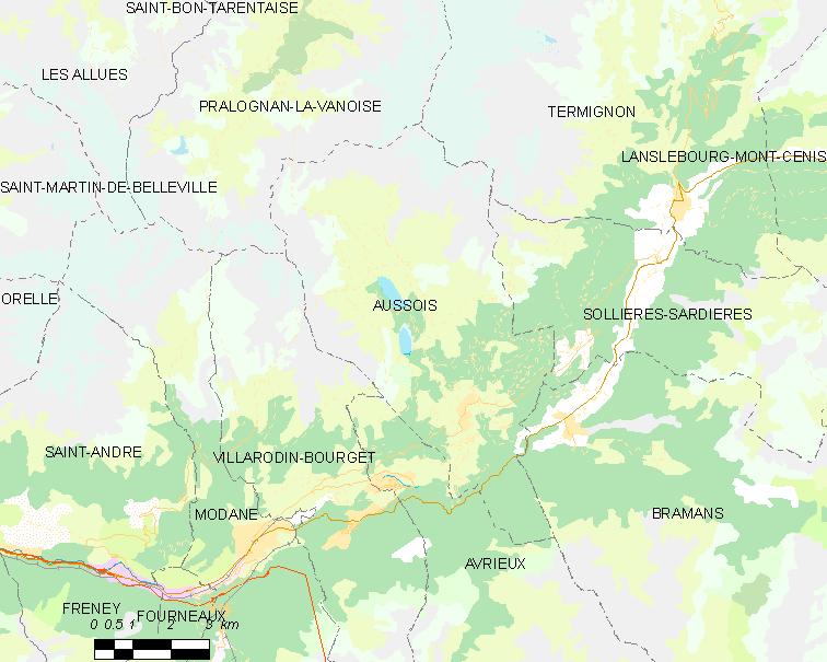 Map of French municipality